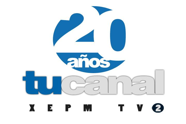 This is a logo for XEPM-TV